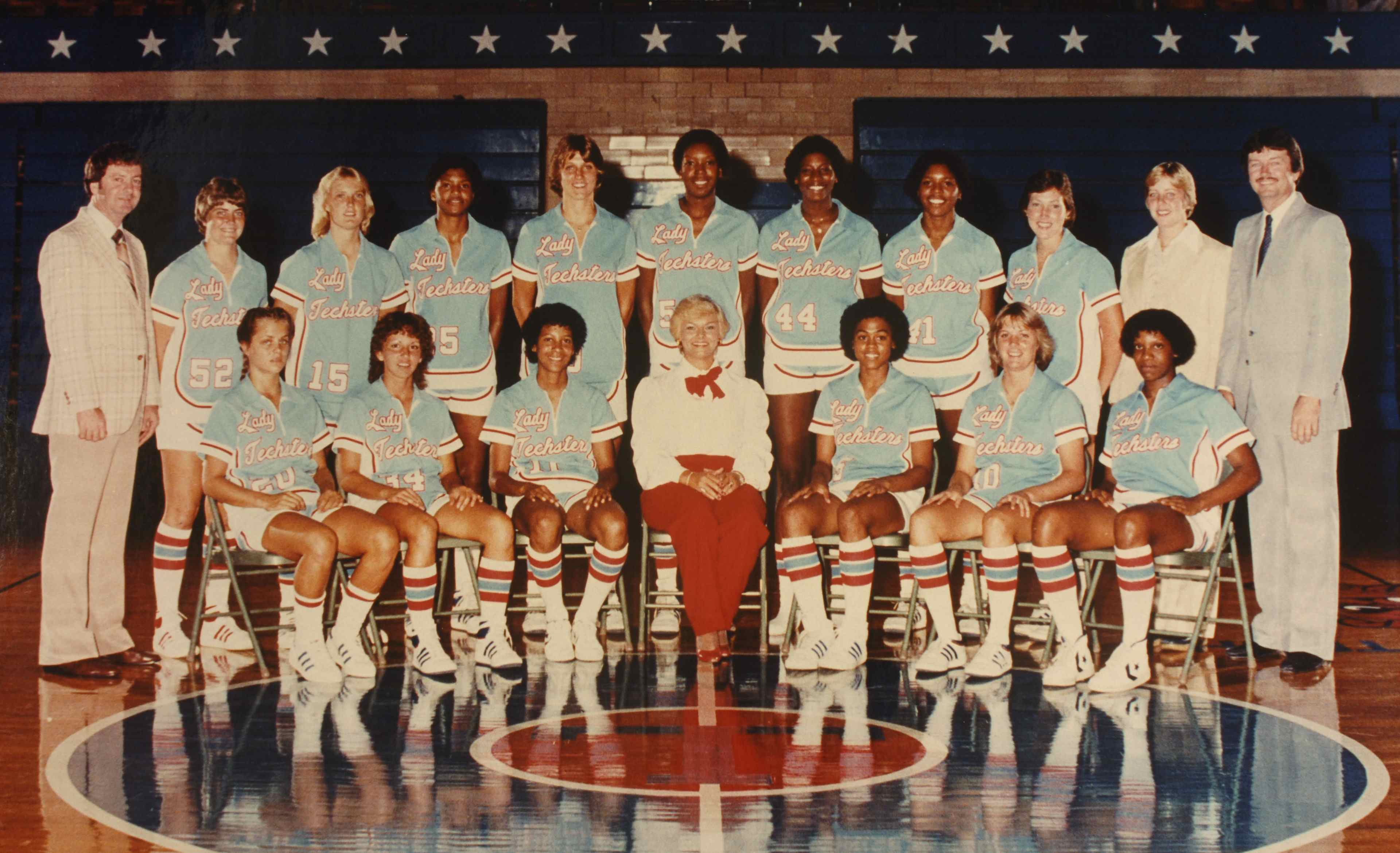 1982 Louisiana Tech women's basketball team. Winner of the inaugural NCAA Women's Basketball Tournament (File name as supplied: 1982 Team copy2)